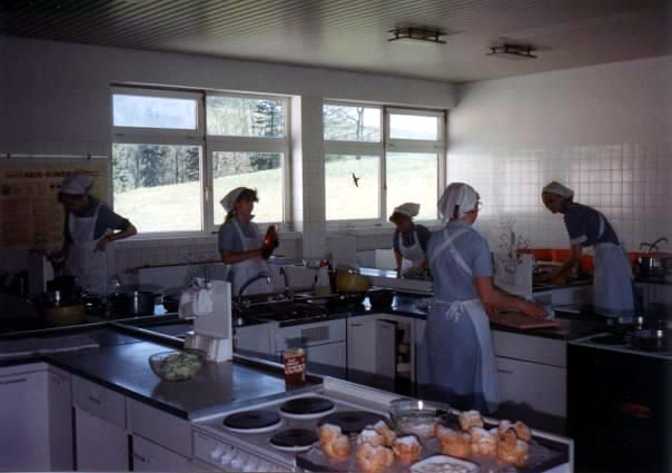 Reifensteiner Schule Lehrküche Wittgenstein